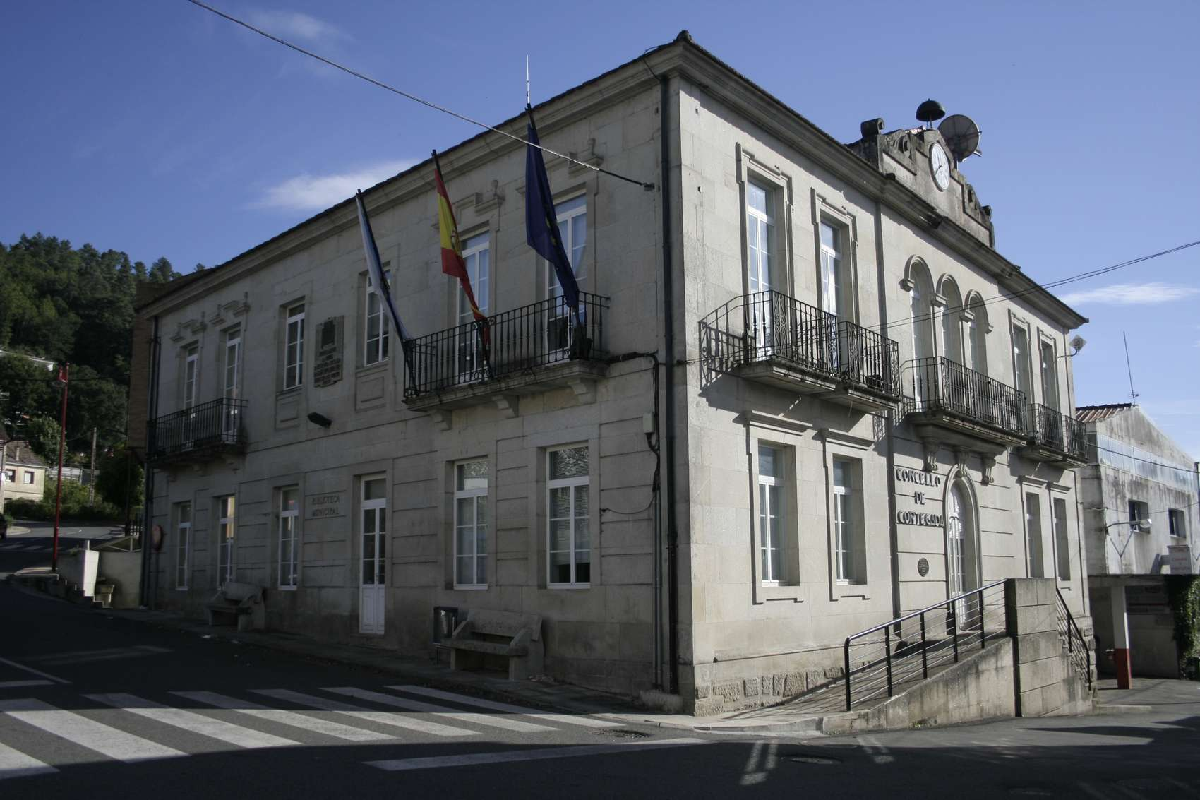 Town Hall and Municipal Library in Cortegada (Spain)